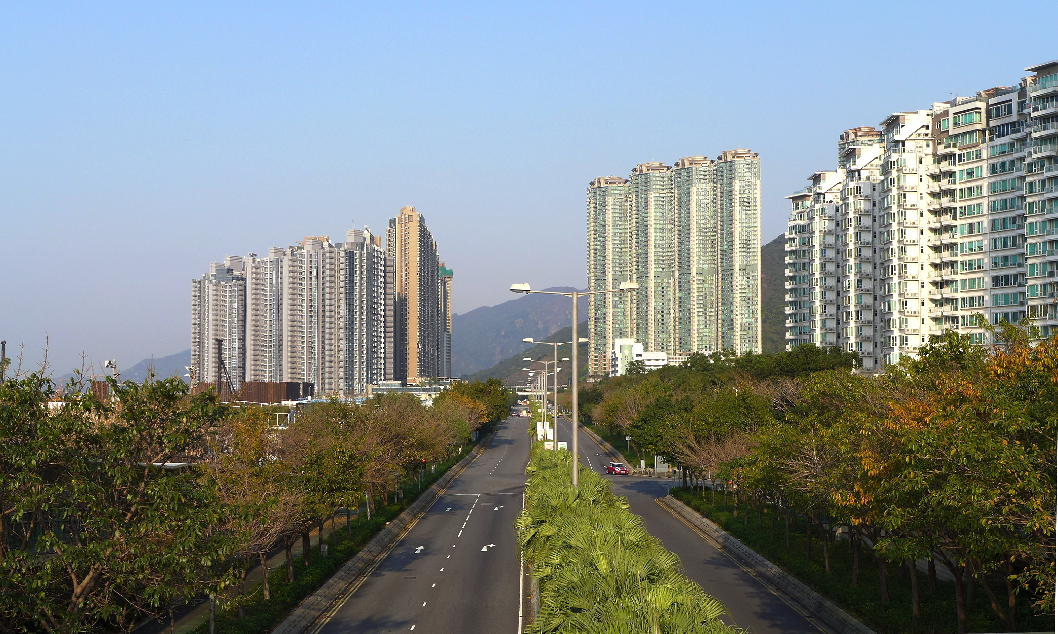 Tung Chung Harbourfront Road